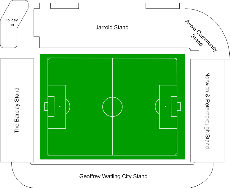 A schematic of Carrow Road, Norwich City F.C.'s home stadium